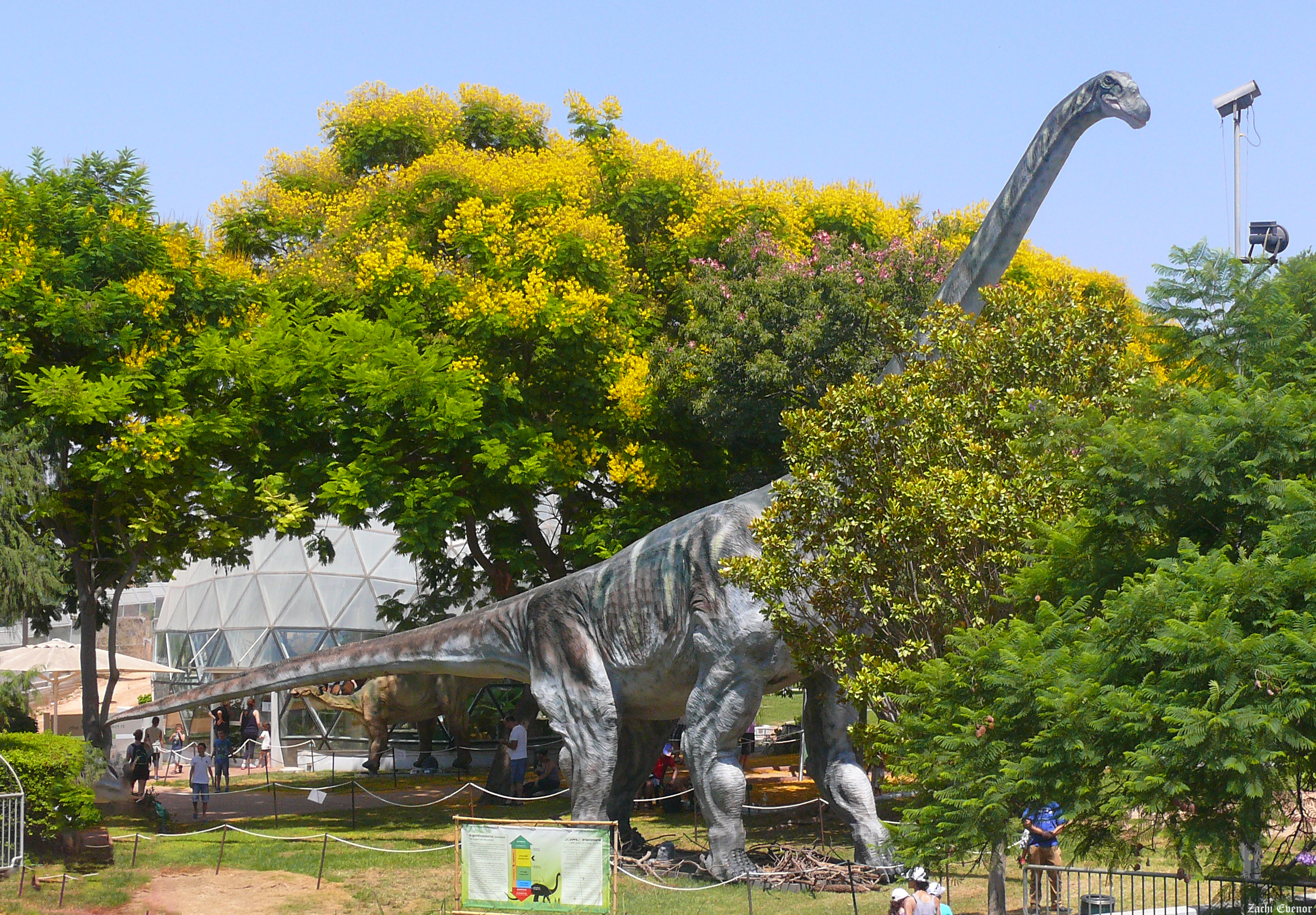 Argentinosaurus model (almost full size) at Clore Garden of Science in Weizmann Institute of Science